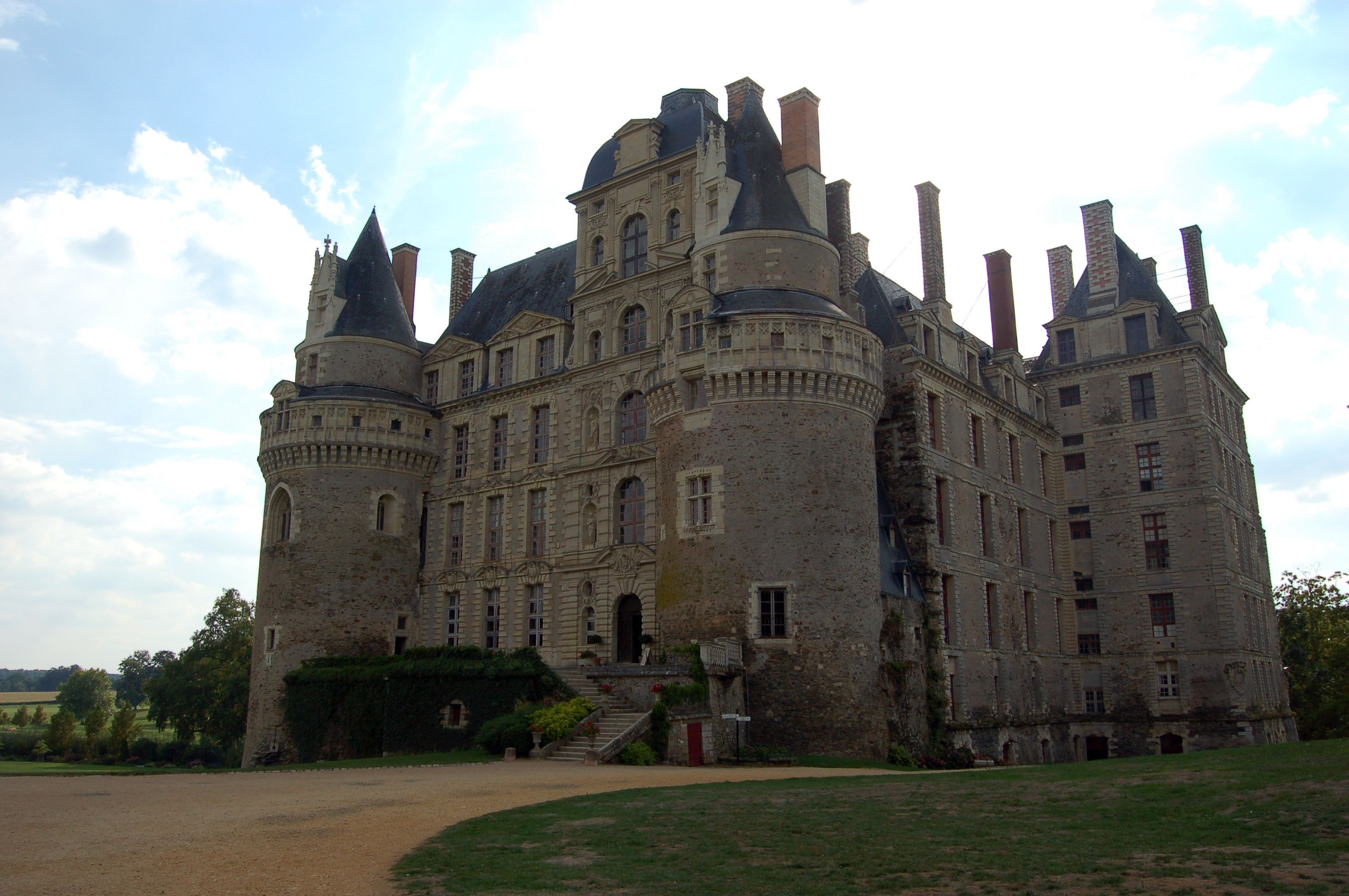 Château de Brissac, north-eastern aspect